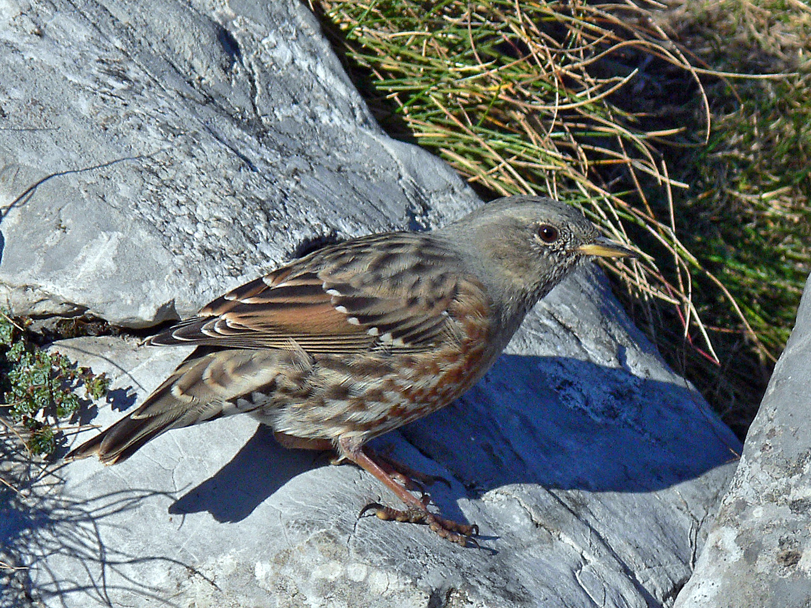 Alpine Accentor, Giewont, Tatra Mts., Poland